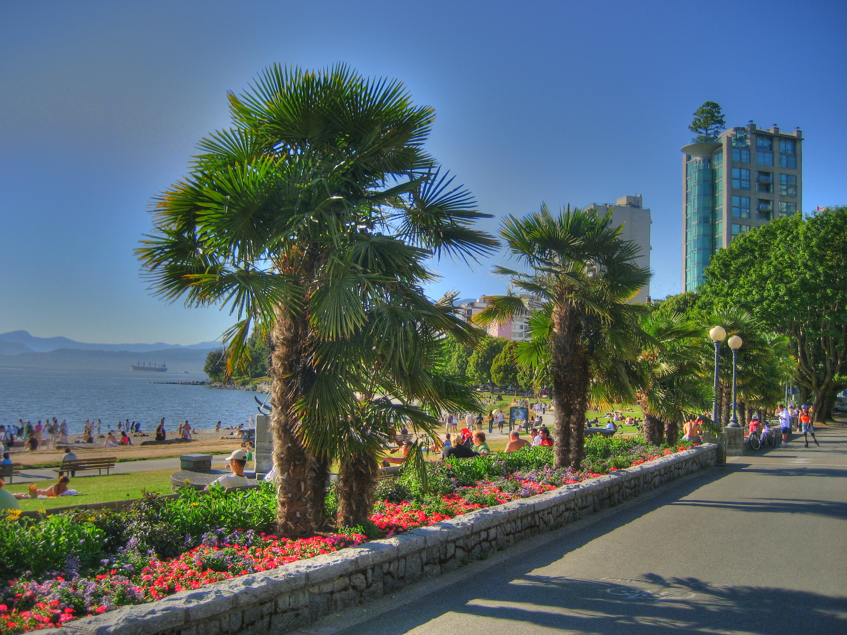 Palms, English Bay Beach, Vancouver, Canada